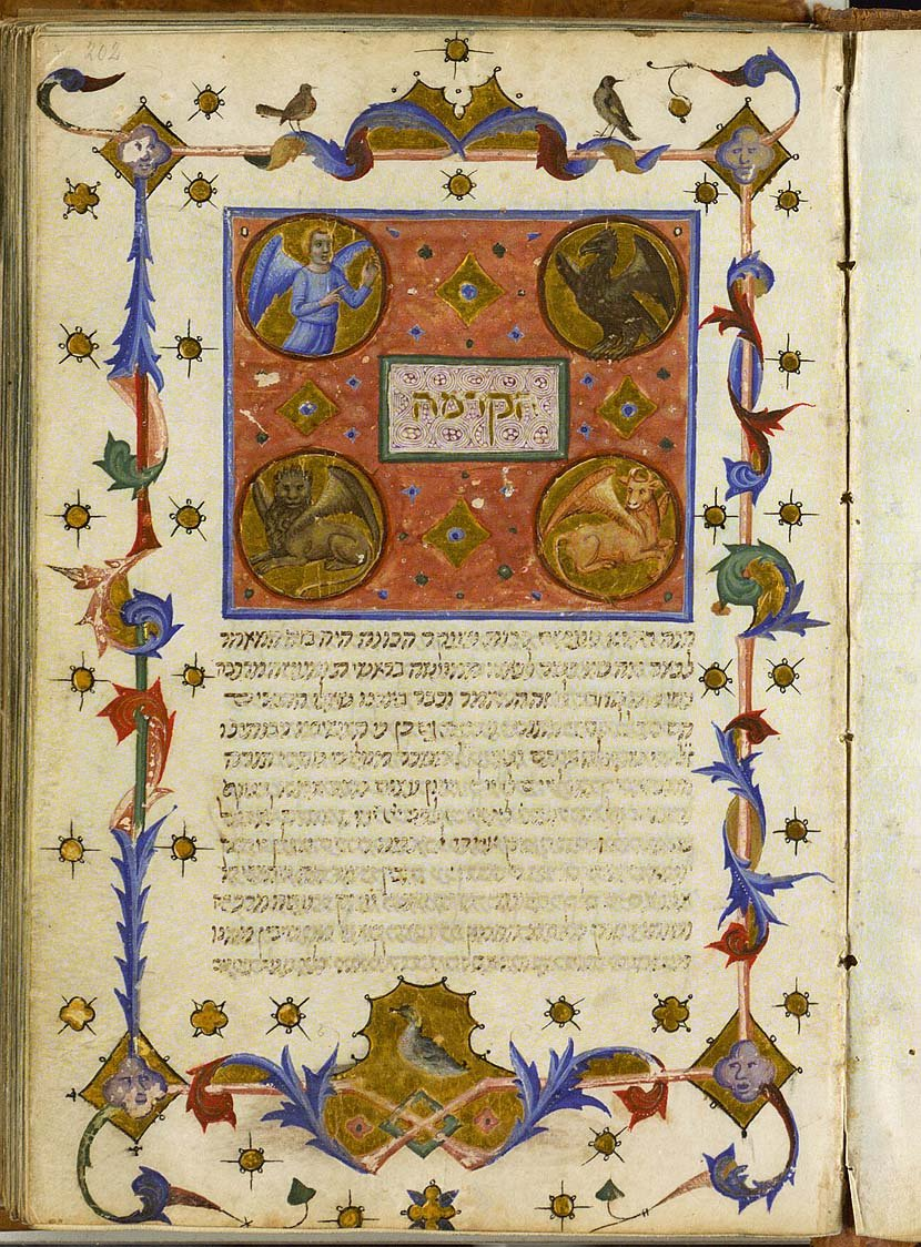 a copy of manuscript of the Guide of the Perplexed by Maimonides; illumination by Ferrer Bassa, Barcelona, 1348